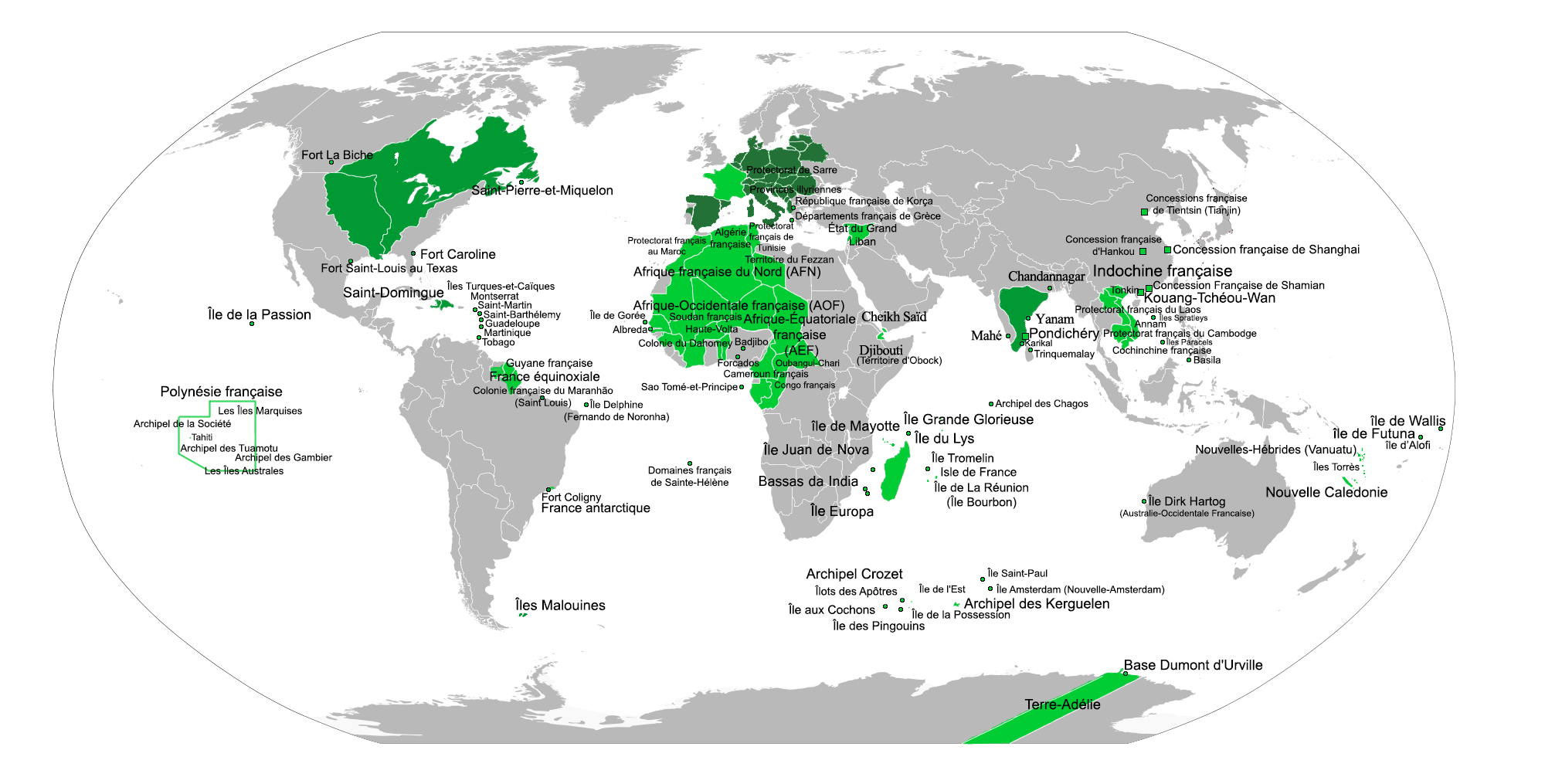 Map of the whole French Empire, In dark green, the first colonial empire (French control was somewhat nominal over some of this area) In light green the second colonial empire